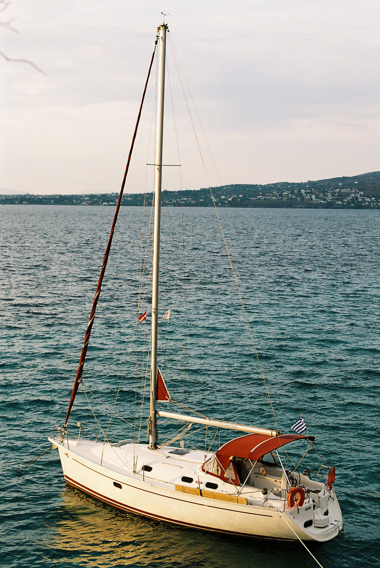 Dufour Gib'Sea 37 sailing yacht, near Aegina, Greece